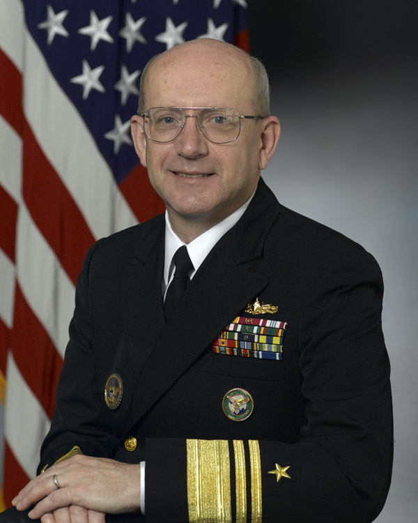 Official portrait of Vice Admiral Robert T. Moeller, USN.